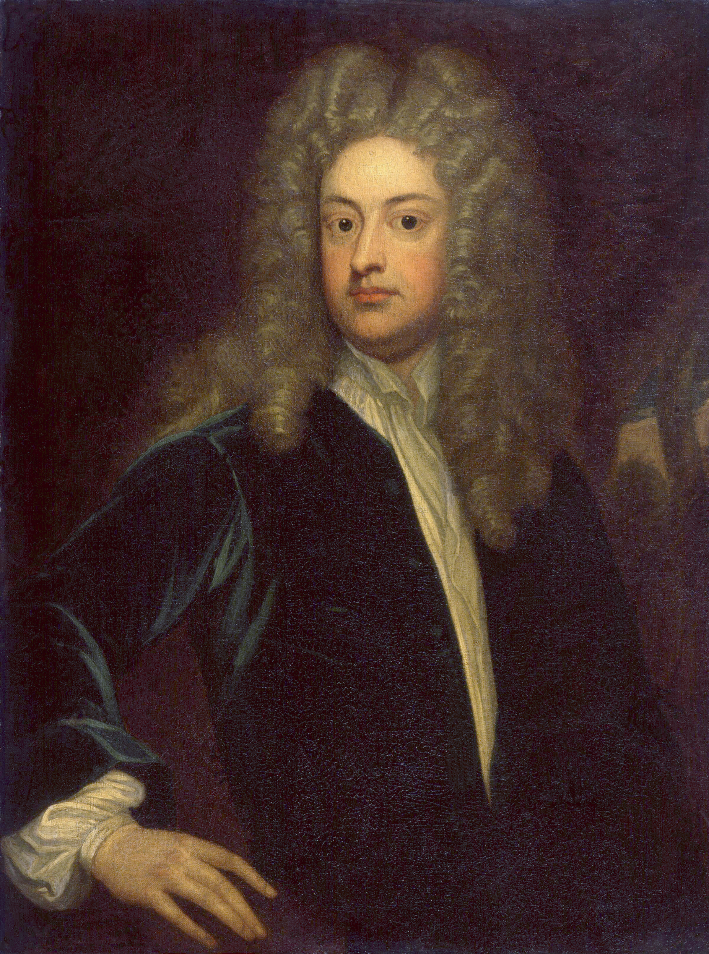 Level adjusted colour corrected version of File:Joseph_Addison_by_Sir_Godfrey_Kneller,_Bt.jpg.